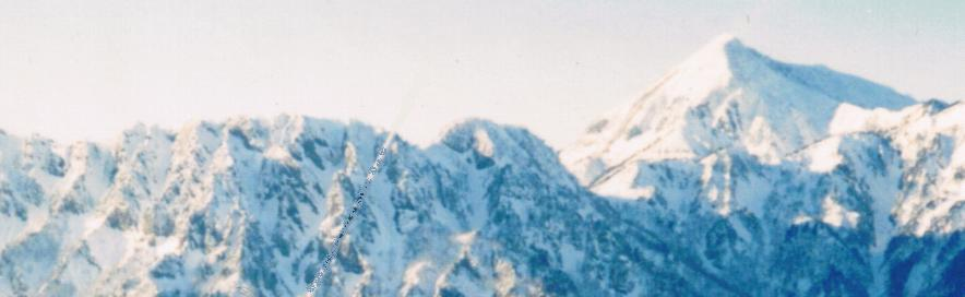 Mount Takatsuma(r) and Mount Togakushi(l)